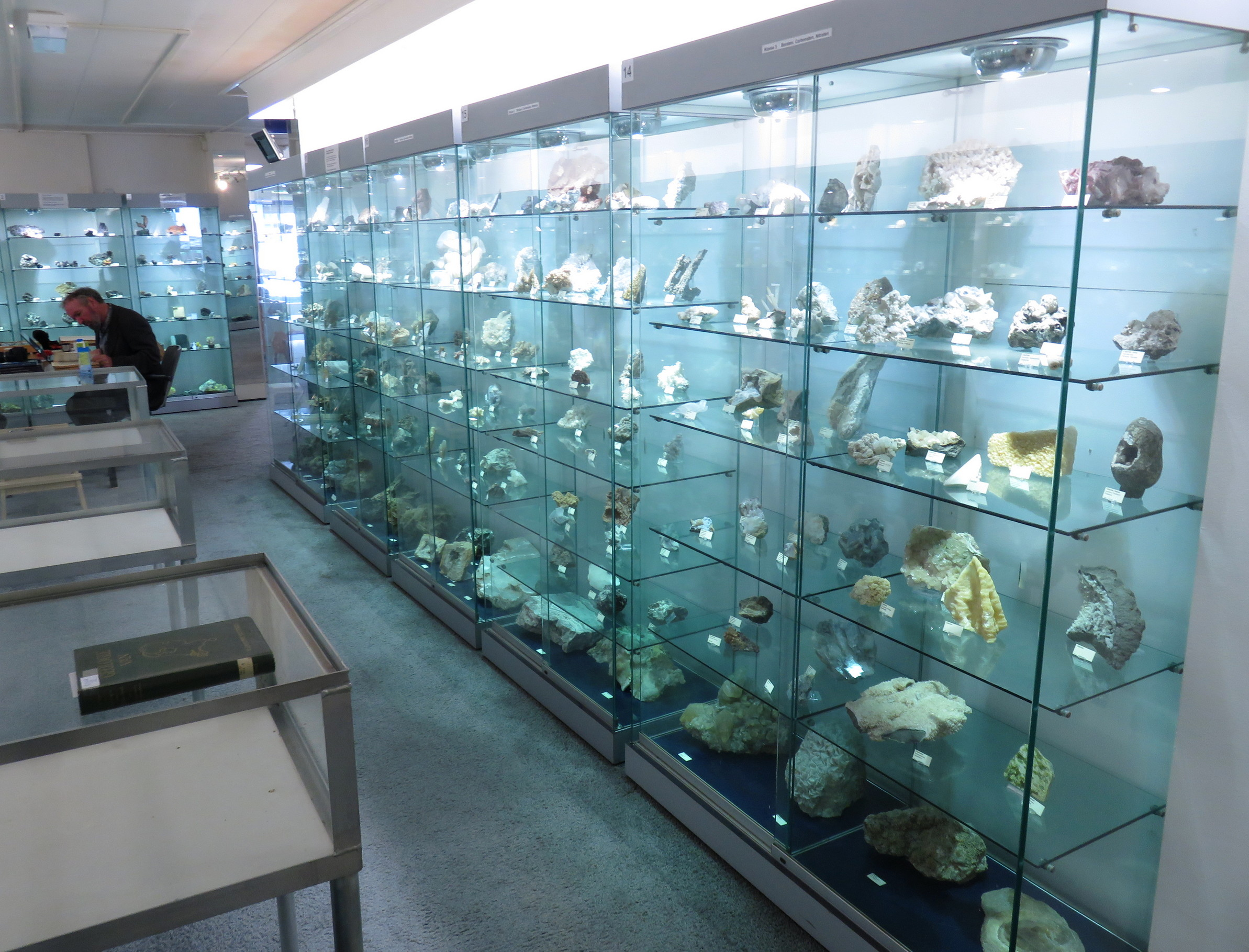 Part of the mineral exposition in Gelders Geologic Museum te Velp (NL)